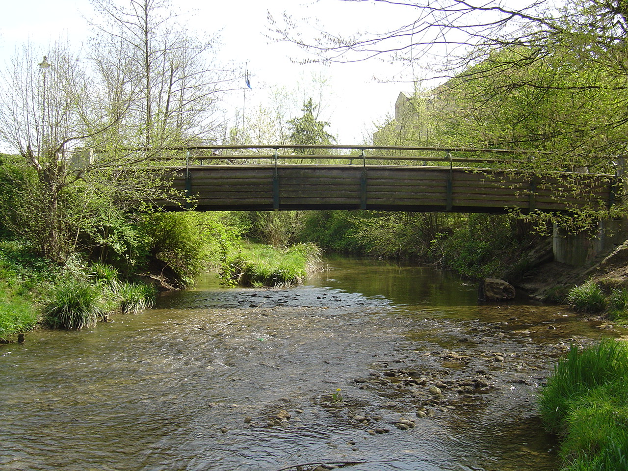 Pedestrian bridge over the "Möhlinbach" (brook of Möhlin). Location: centre of Möhlin